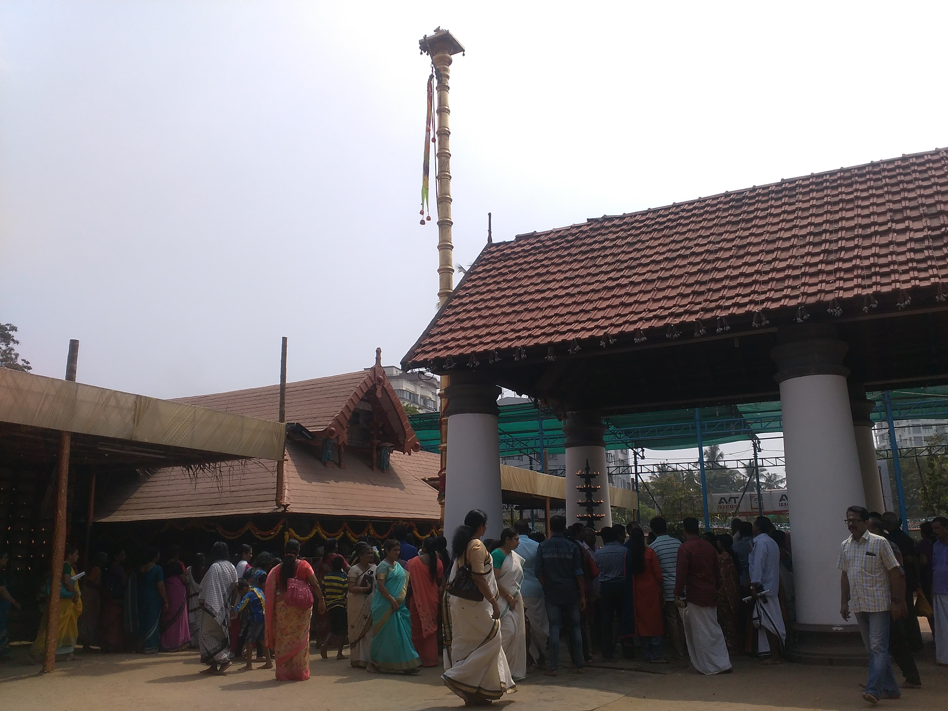 Ernakulam Shiva temple during on of it's festival days